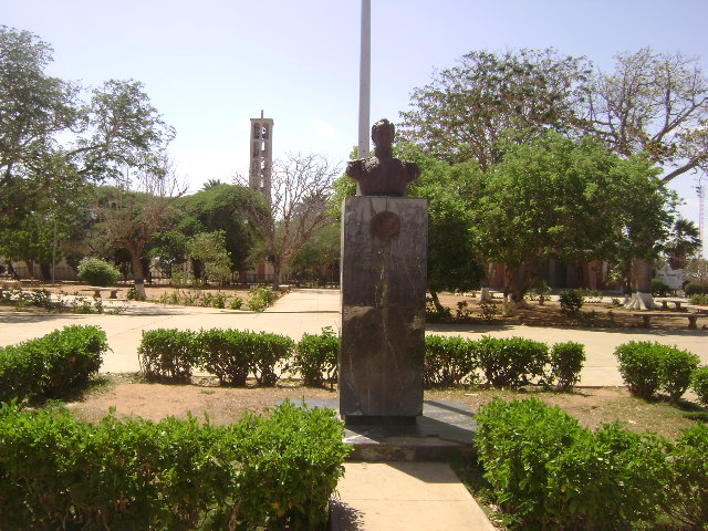 Bolívar square of Judibana.